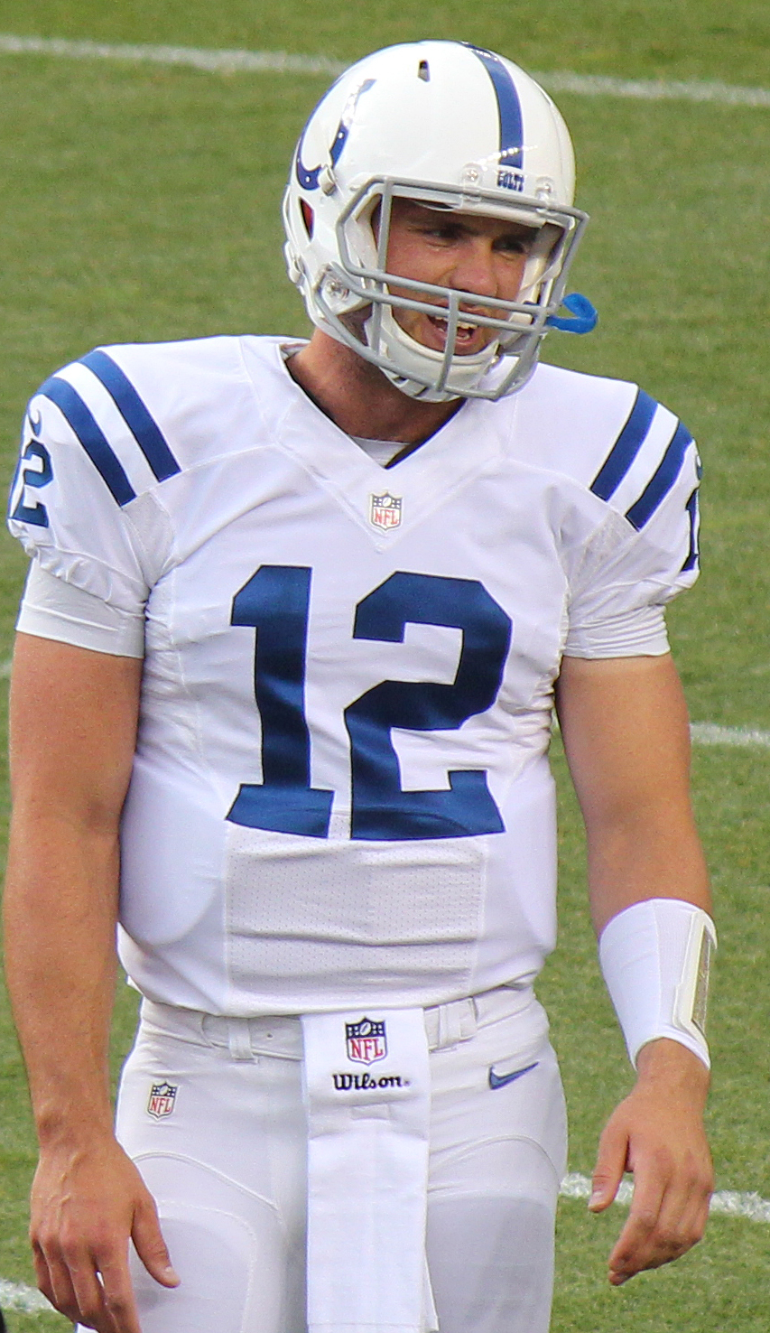 Andrew Luck, number 12, a player on the National Football League.